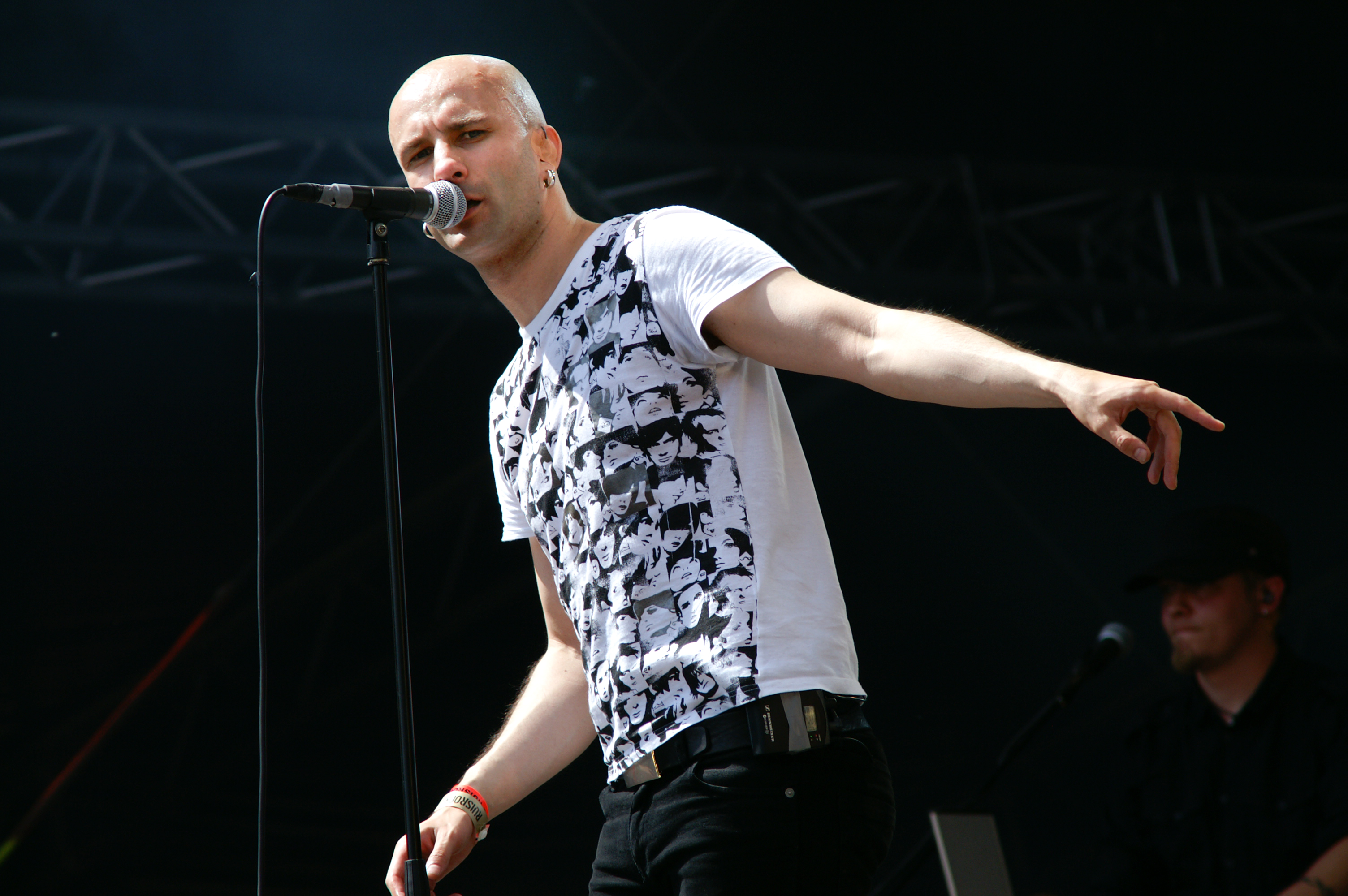 Herra Ylppö performing in Ruisrock music festival in Turku, Finland